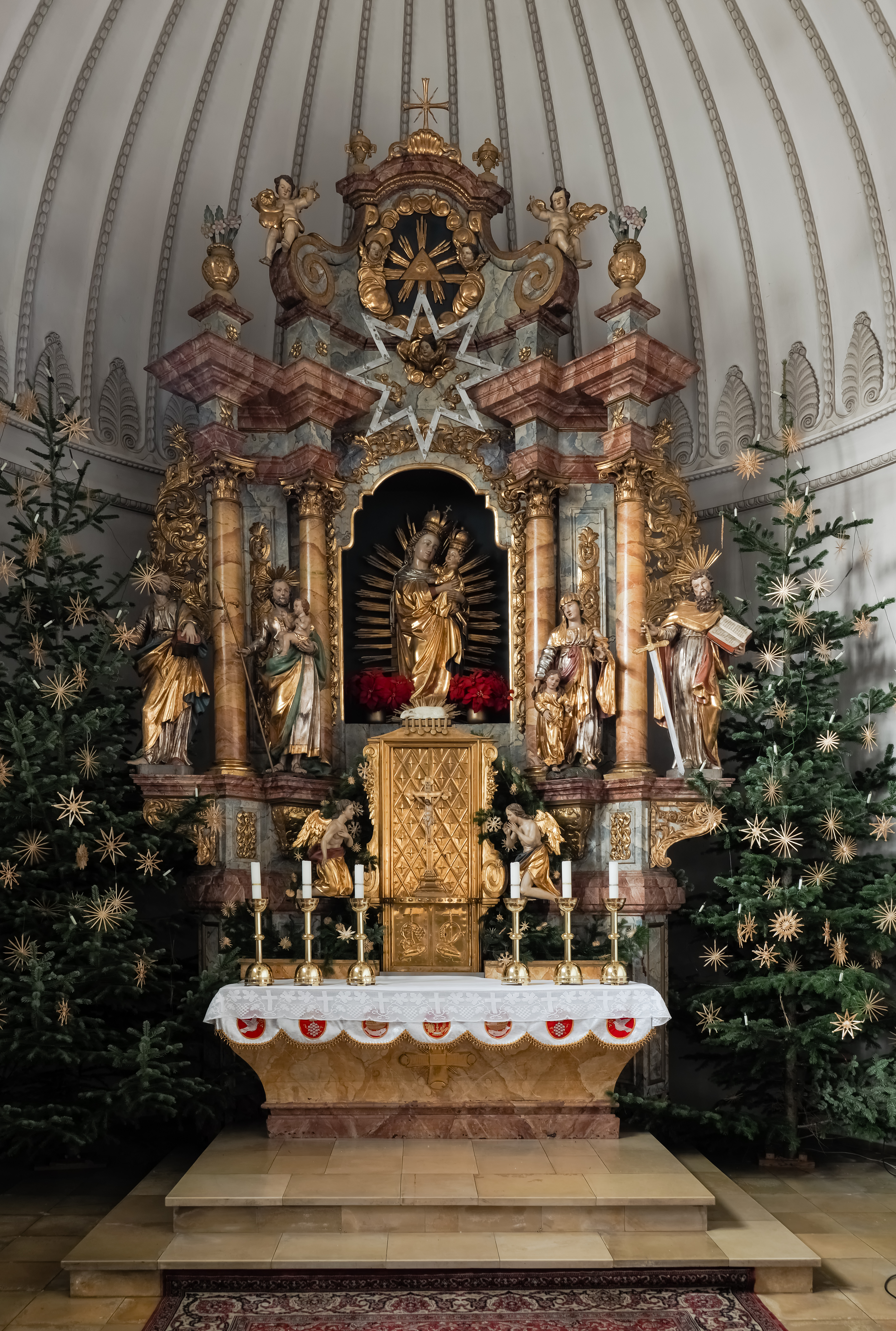 High altar with Christmas decoration of the catholic parish church St.Peter and Paul in Langensendelbach